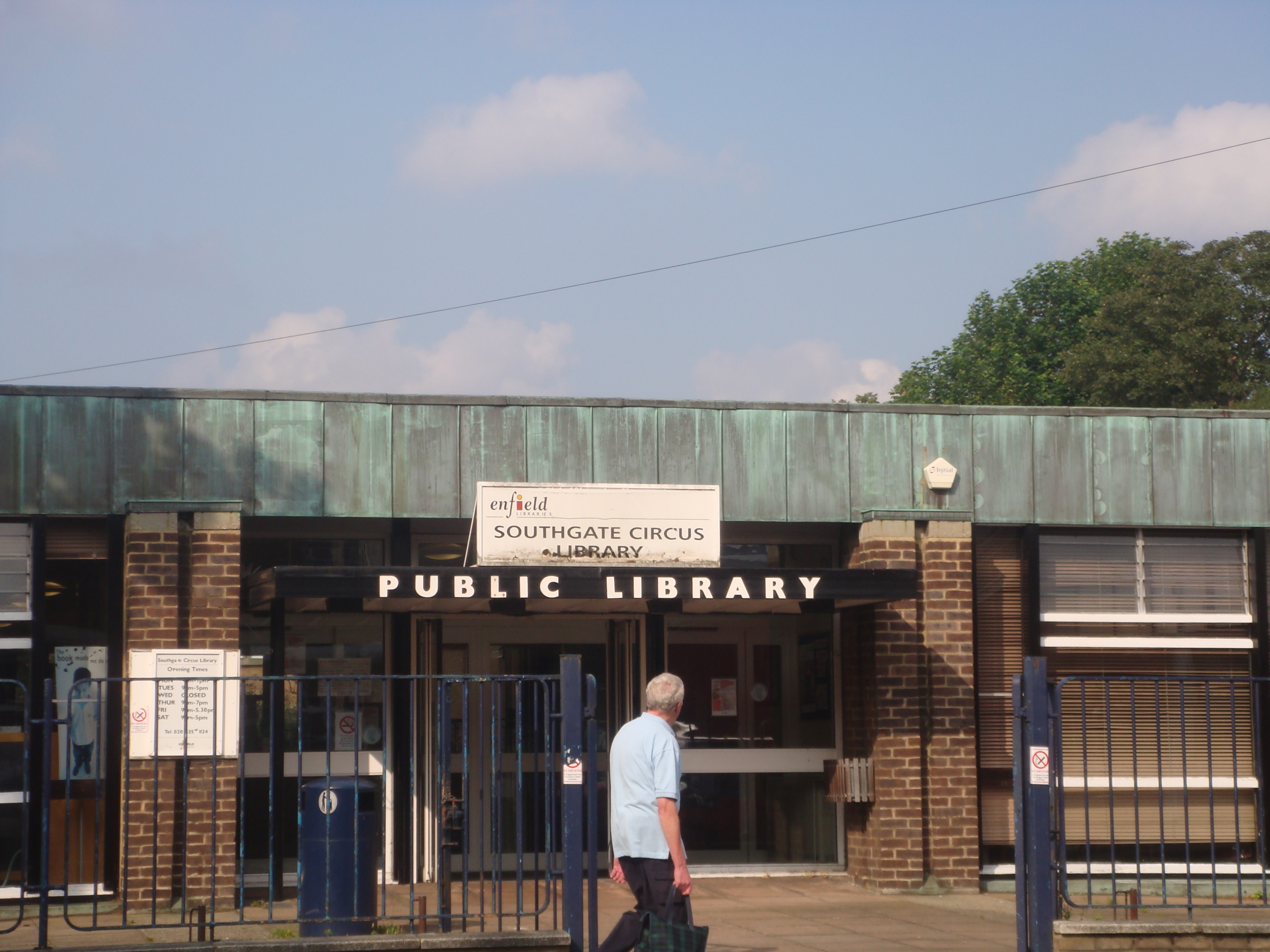 The Southgate Public Library in Southgate, London.